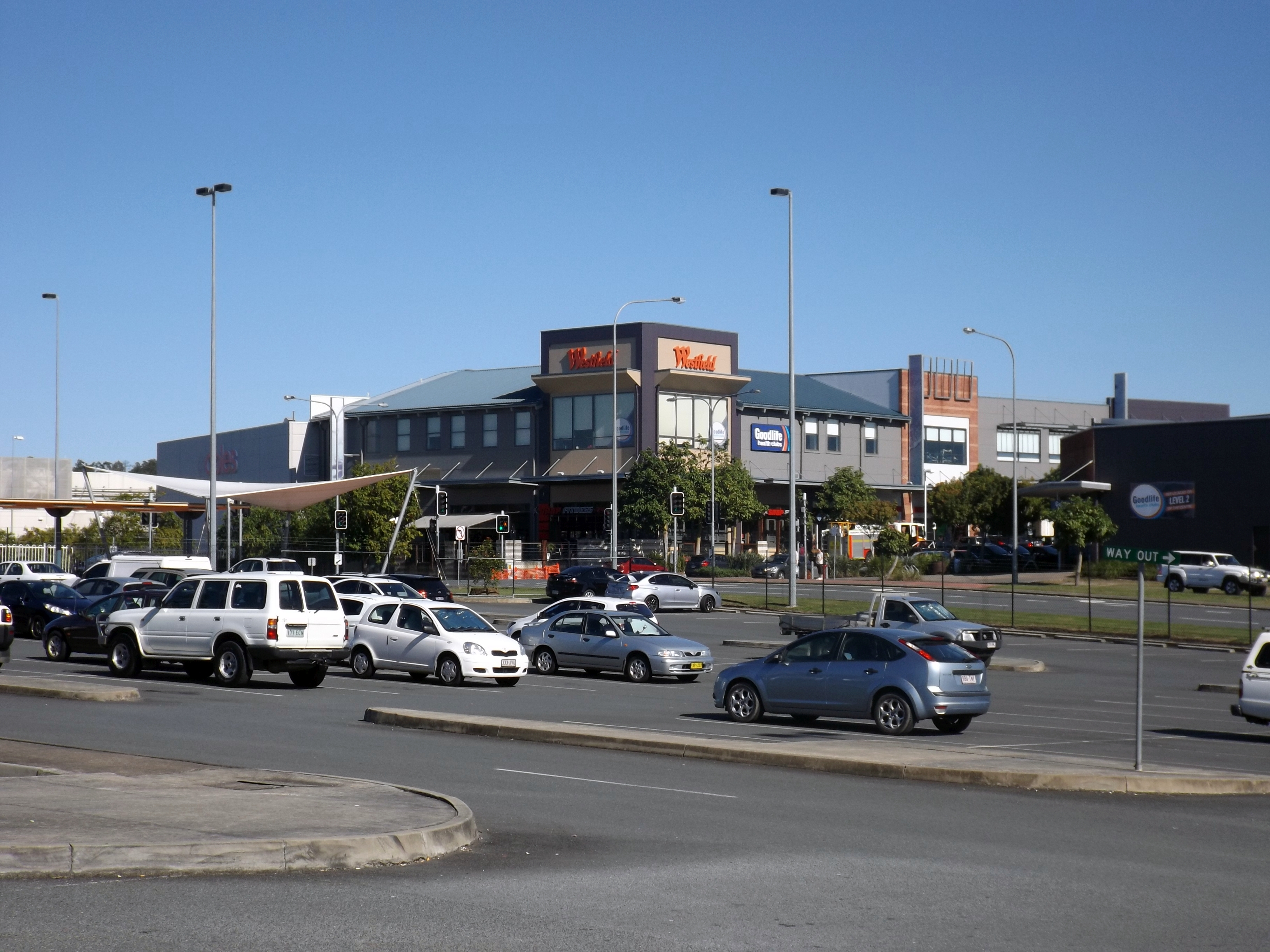 Photo of Westfield Helensvale shopping centre as seen from the north at Helensvale, Gold Coast, Queensland, Australia.